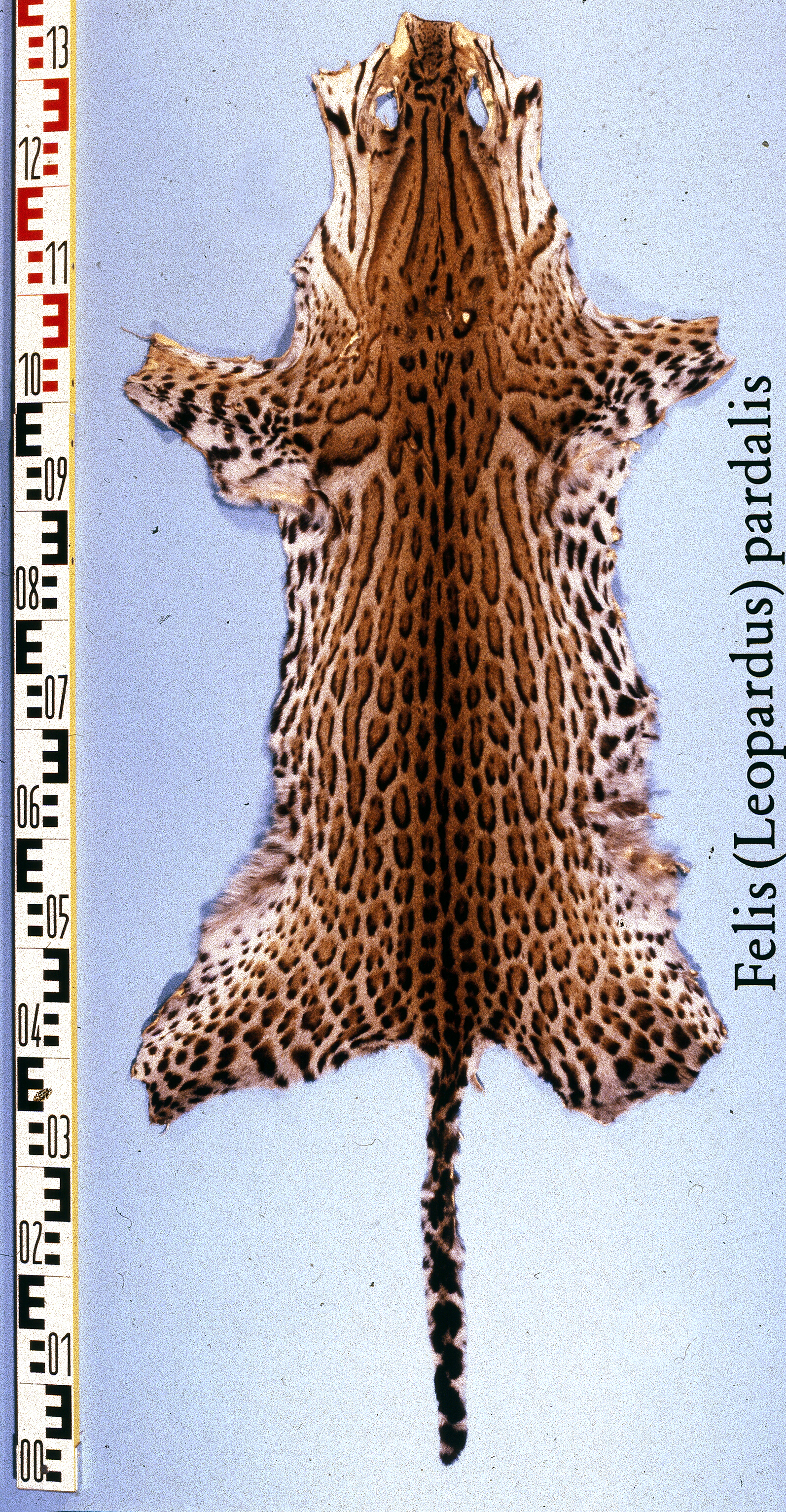 Ocelot fur skin (Leopardus pardalis), Brazil, Amazonas. Fur skin collection, Bundes-Pelzfachschule, Frankfurt/Main, Germany